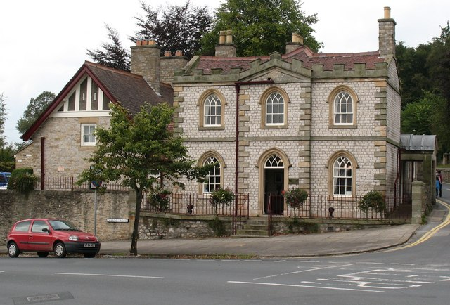 The office of Blenkirons funeral directors, 21 Queens Road, Richmond, North Yorkshire, seen from the east. Built early in the 19th century as the Victoria Hospital.